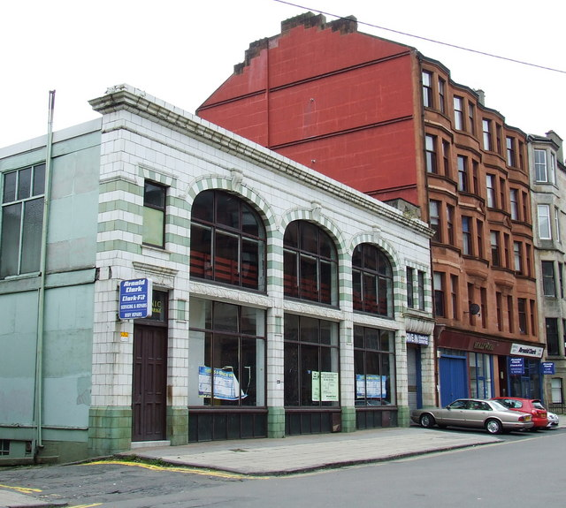 Botanic Gardens Garage On Vinicombe Street. Built in 1912 and one of the oldest purpose built garages in Scotland, it is under threat of demolition